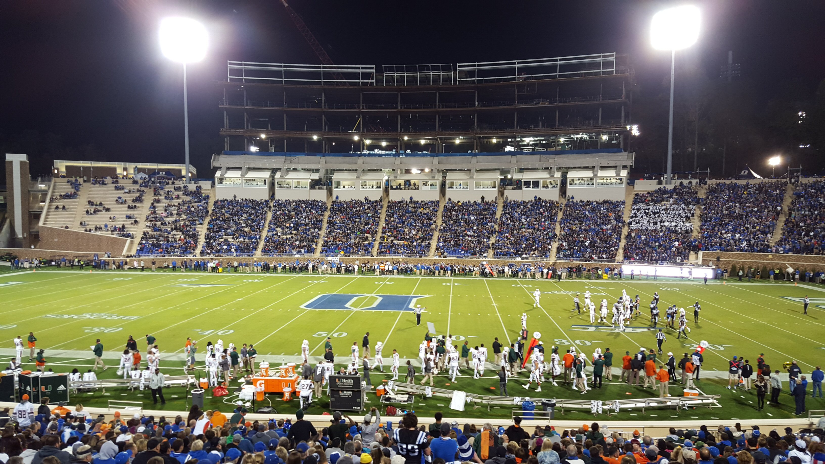 Wallace Wade Stadium during Duke's 2015 game against the Miami Hurricanes. The construction of Blue Devil Tower can be seen above the press box.